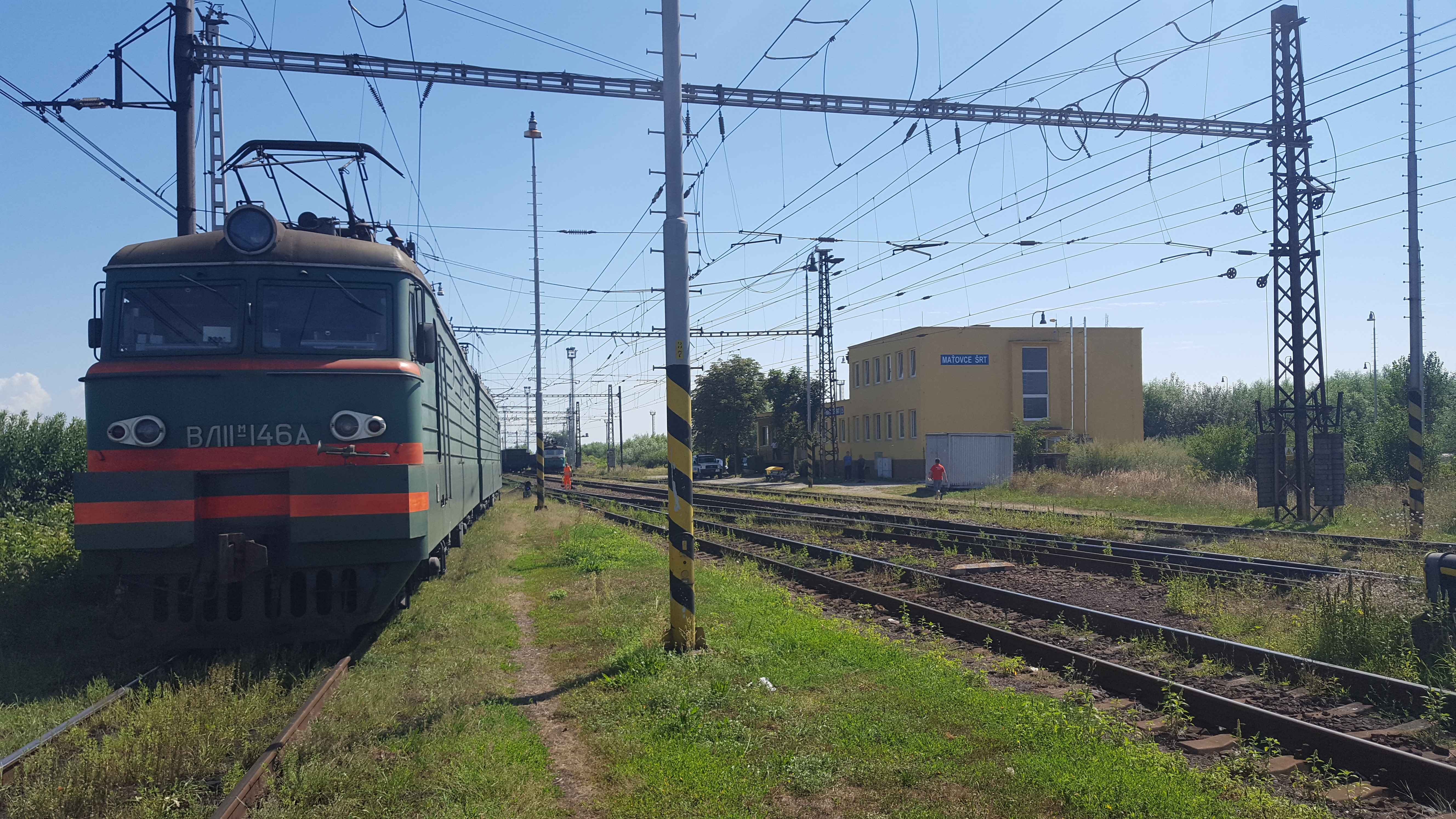 Freight train of Ukrainian Railways at a border station in Maťovce, Slovakia. It is located on a broad-gauge line from Uzhhorod to Haniska při Košiciach.